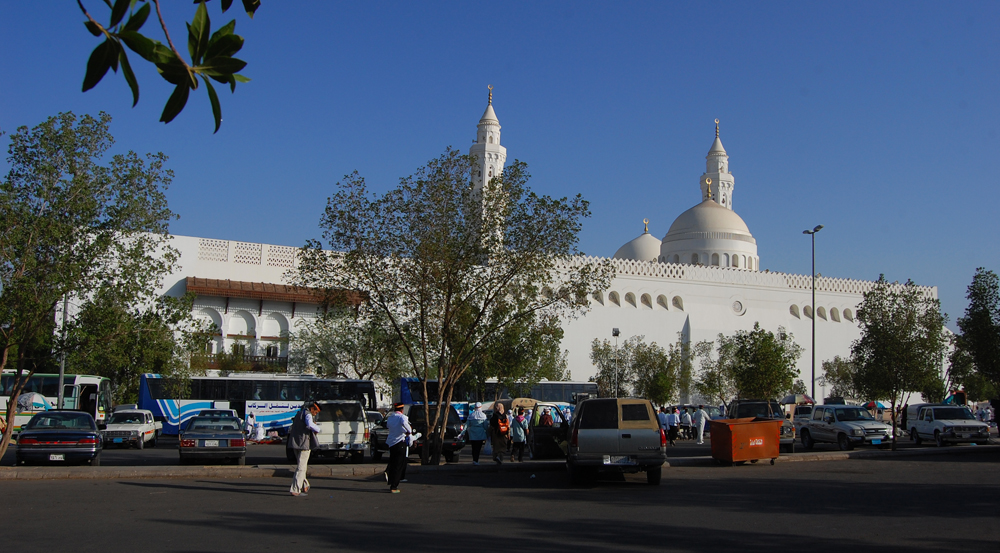 Masjid al-Qiblatayn in Medina